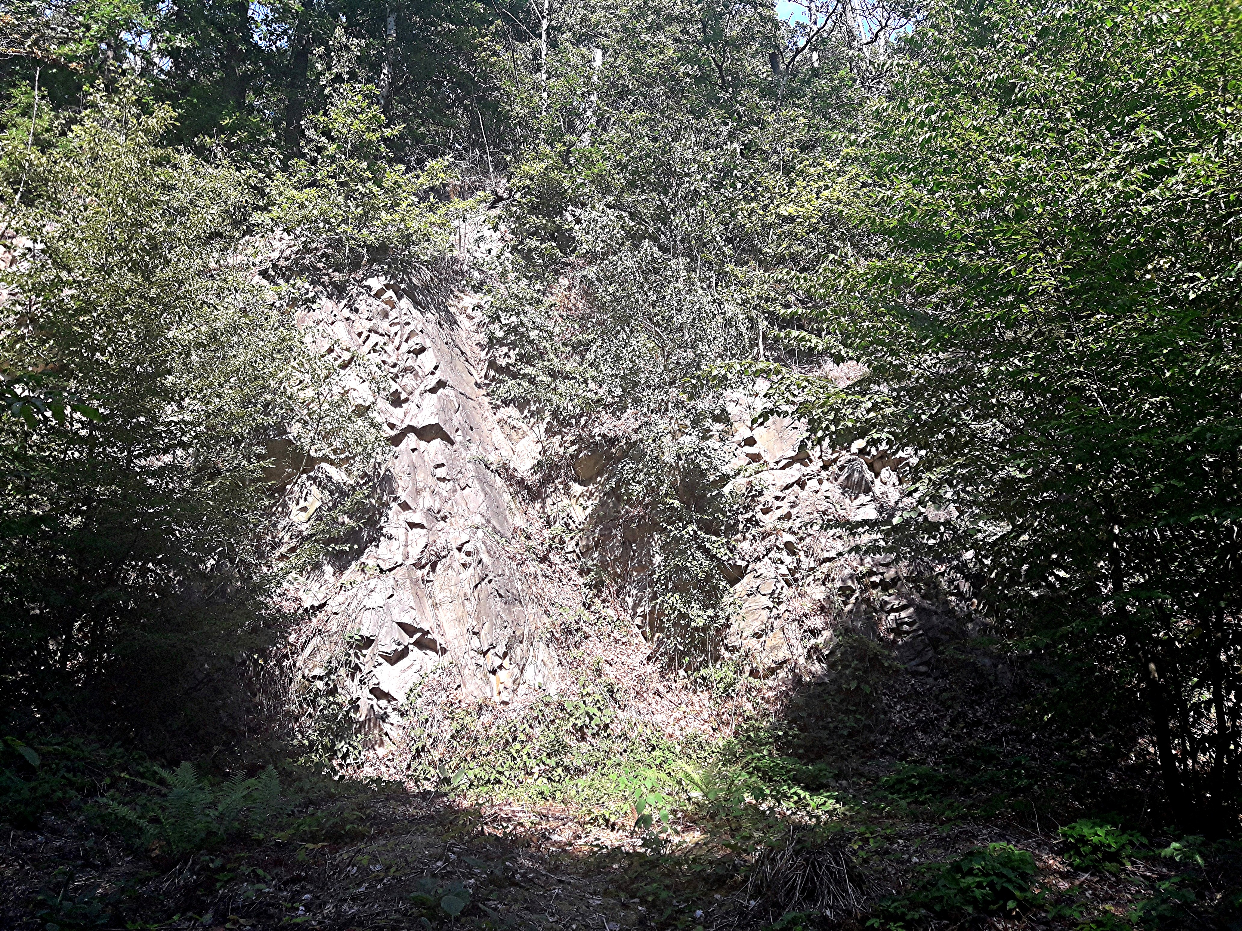 a view on the Graywacke Rock in a disused quarry on the south-western slope of the Collmberg in the northeastern part of the Wermsdorf Forest.